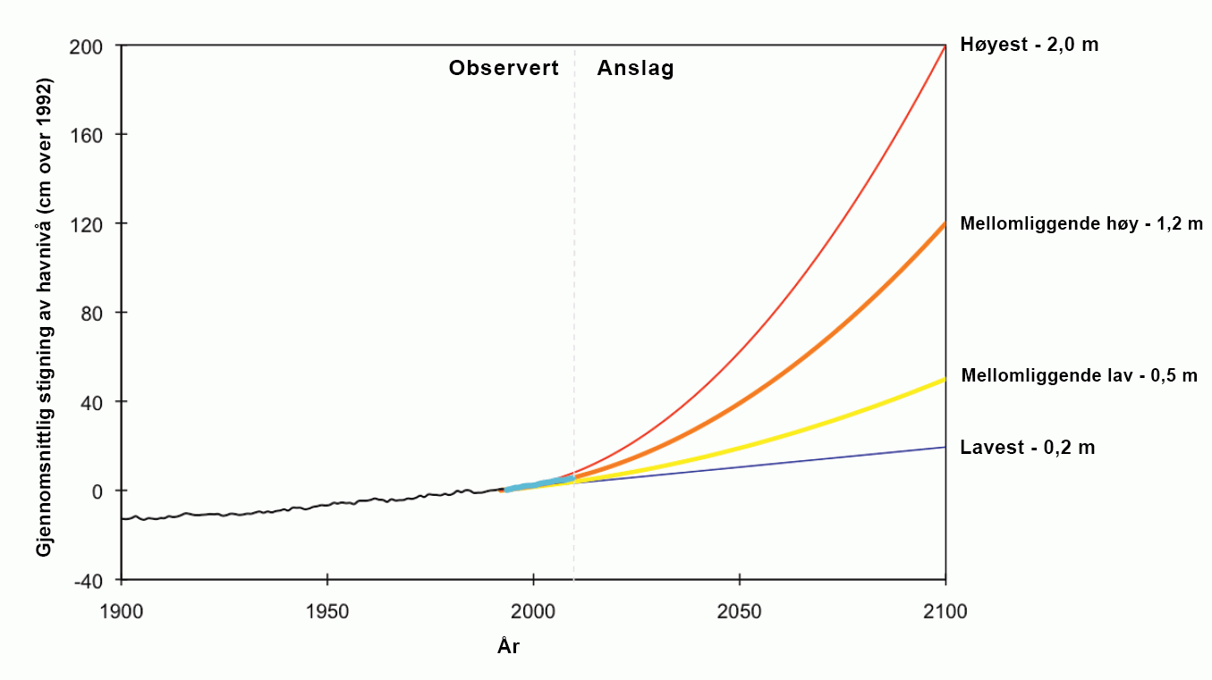 Version in Norwegian. This graph shows projections of global mean sea level rise (SLR) by Parris et al. (2012)[1] In 2100, global mean sea level is projected to rise by 0.2-2.0 m (0.7-6.6 ft), relative to mean sea level in 1992: Scenario / SLR by 2100 (m) / SLR by 2100 (ft) Highest / 2.0 / 6.6 Intermediate-high / 1.2 / 3.9 Intermediate-low / 0.5 / 1.6 Lowest / 0.2 / 0.7 Note: projections are relative to mean sea level in 1992. SLR increases smoothly over the 21st century, with a slight acceleration over time. In 2050, SLR projections approximately range between 0.1-0.62 m (0.3-2.0 ft). Parris et al. (2012)[2] do not assign probabilities to these scenarios. Therefore, none of these scenarios should be interpreted as a best-estimate of future SLR.